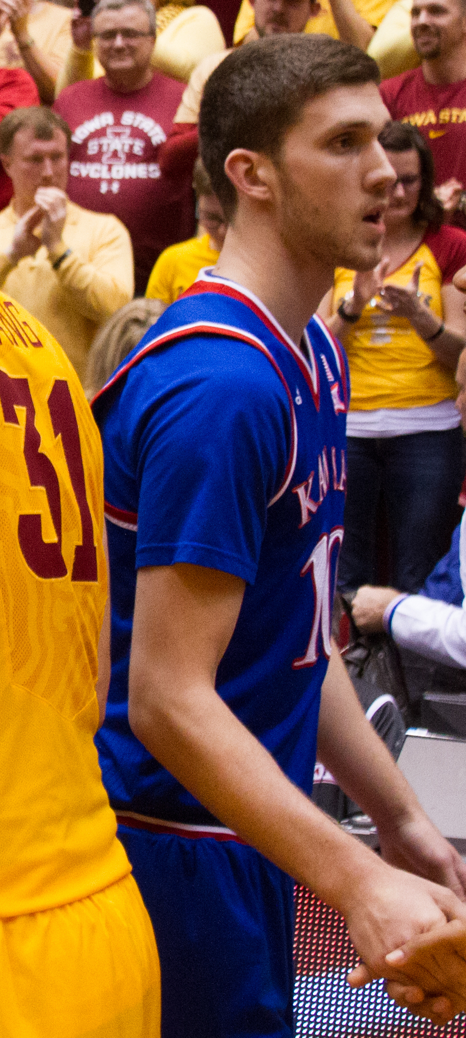 Iowa State pulled the upset, and beat the Kansas University Jayhawks 85-72 Jan 25 in Hilton Coliseum